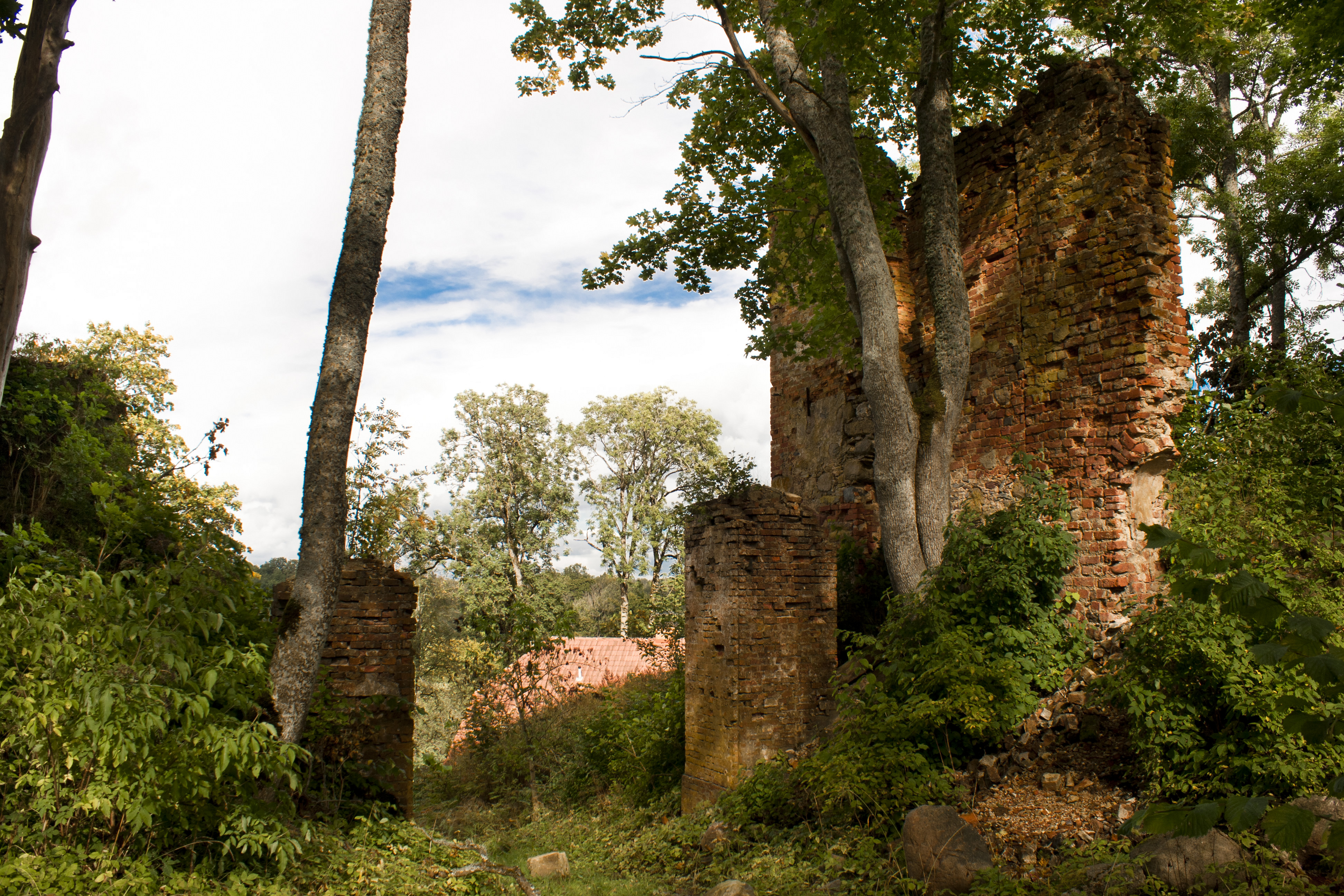 Embūte medieval castle ruins, Latvia.